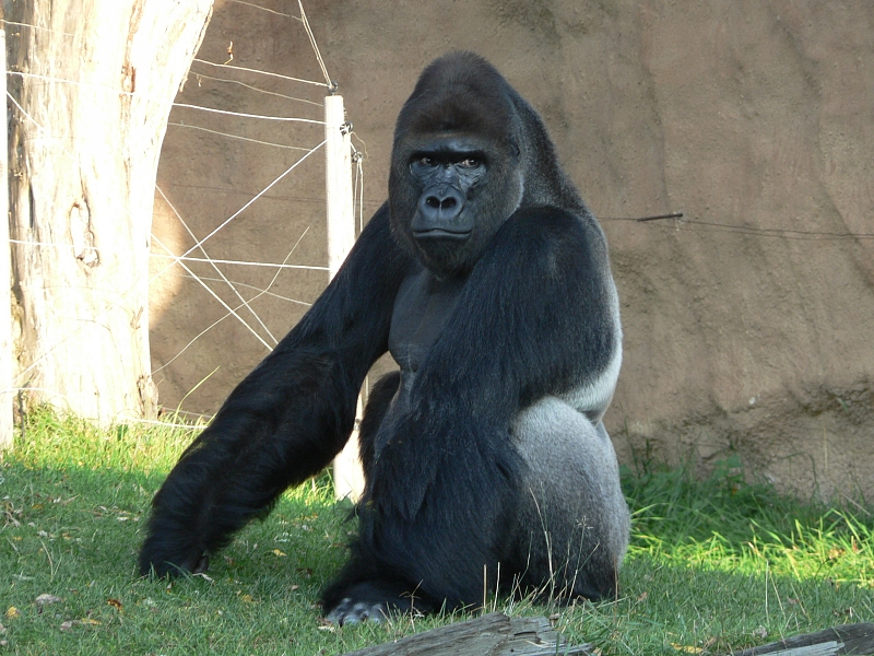 Western Lowland Gorilla, Praha Zoo